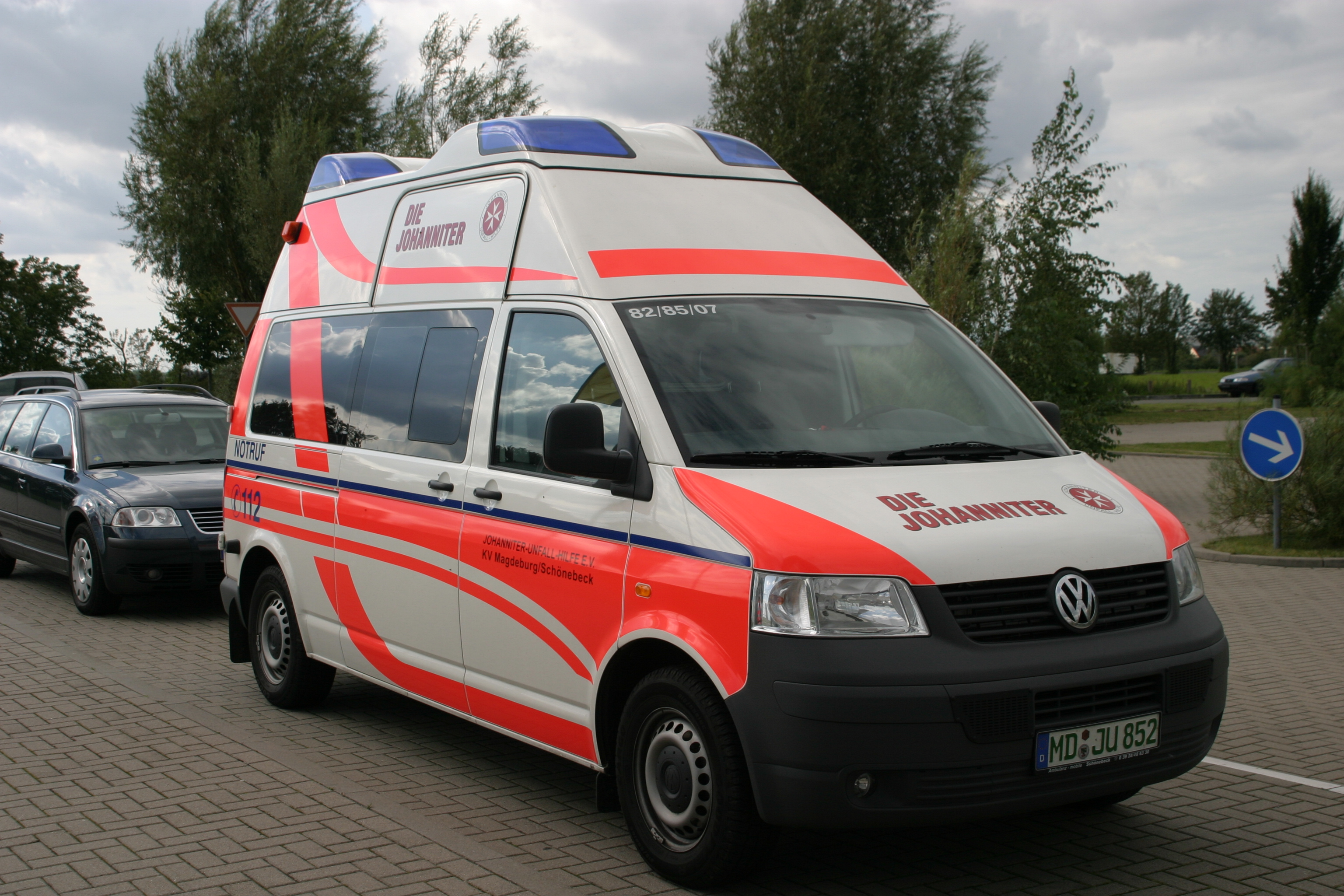 A vehicle of the German Emergency Medical Services. Here, it is a modern patient transport ambulance, operated by the Johanniter-Unfall-Hilfe e.V. (St.Johns Ambulance). The base of the ambulance is a Volkswagen T5 ransporter, wich was rebuilt by the company "Ambulanzmobile" in Schönebeck.